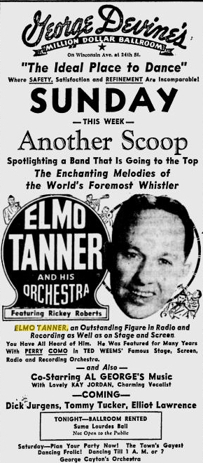 Newspaper ad for George Devine's Ballroom, Milwaukee. The ad appeared in The Milwaukee Journal 7 February 1947, so it can be dated from the publication date. It falls into the pre-1978 category. There are no copyright markings as can be seen at the full view link. The ad is not covered by any copyrights for The Milwaukee Journal. US Copyright Office page 3-magazines are collective works (PDF) "A notice for the collective work will not serve as the notice for advertisements inserted on behalf of persons other than the copyright owner of the collective work. These advertisements should each bear a separate notice in the name of the copyright owner of the advertisement."